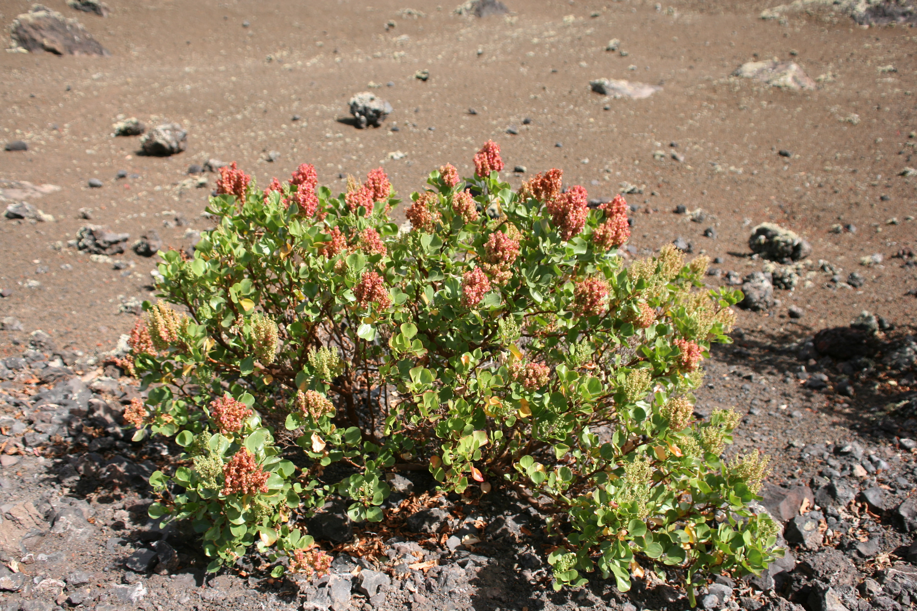 Rumex lunaria growing at Montaña Colorada in Tinajo, Lanzarote, Canary Islands